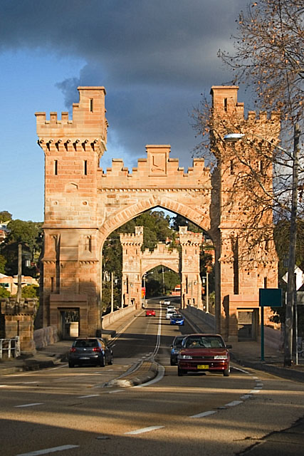 Long Gully Bridge [Better known as the Northbridge Bridge] as viewed from Northbridge looking towards Cammeray, mfunnell, 24JUN2006